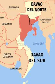 Map Showing Metropolitan Davao within the two provinces of Davao del Sur and Davao del Norte